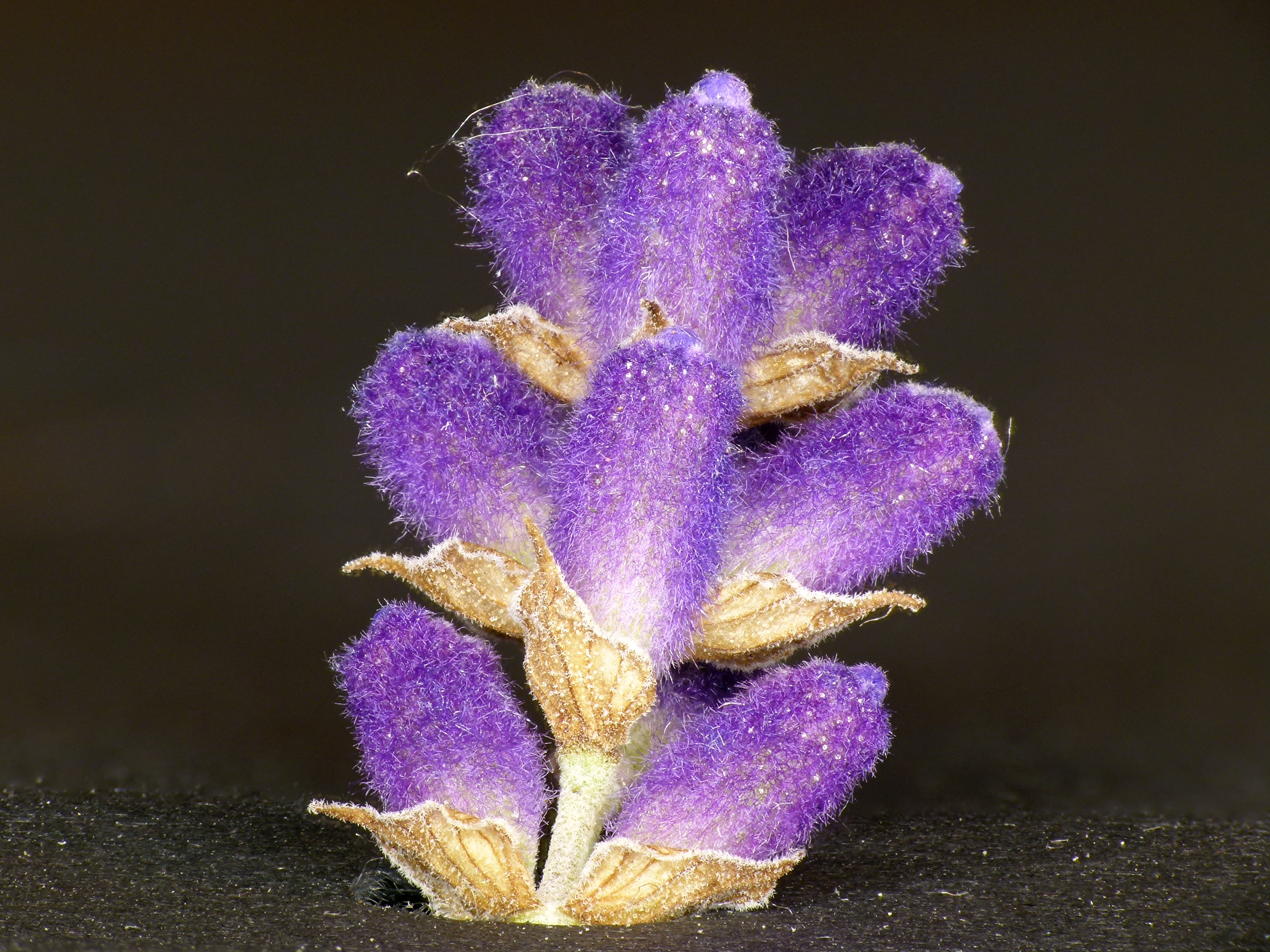 Lavender (Lavendula Angustifolia)